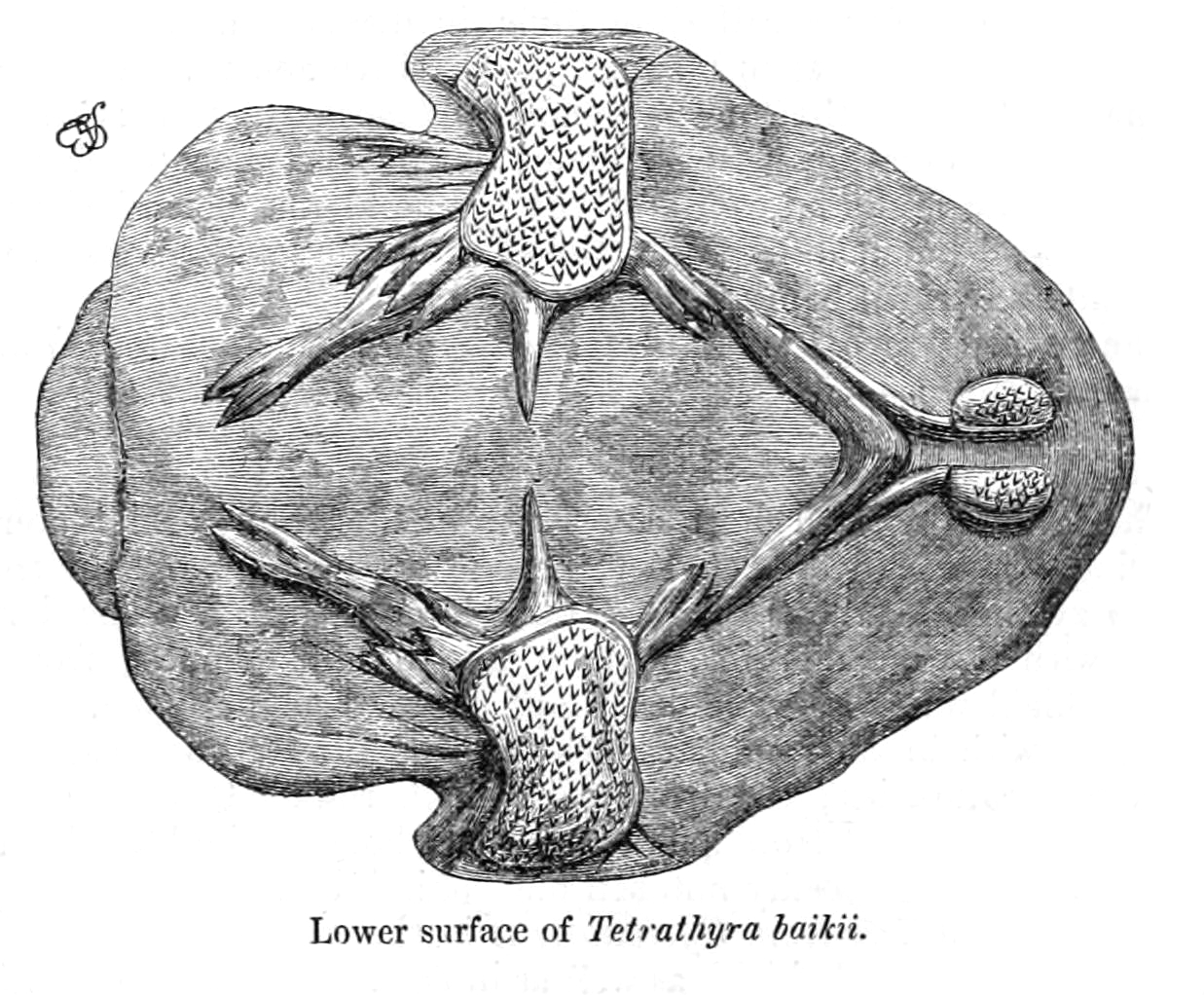 Senegal Flapshell Turtle, plastron from ventral